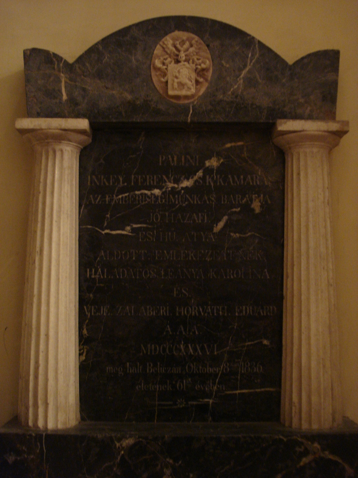 Baron Franjo /Francis/ Inkey (1775-1836) memorial in the Church of the Assumption of the Blessed Virgin Mary in Belica, Medjimurje County, Croatia